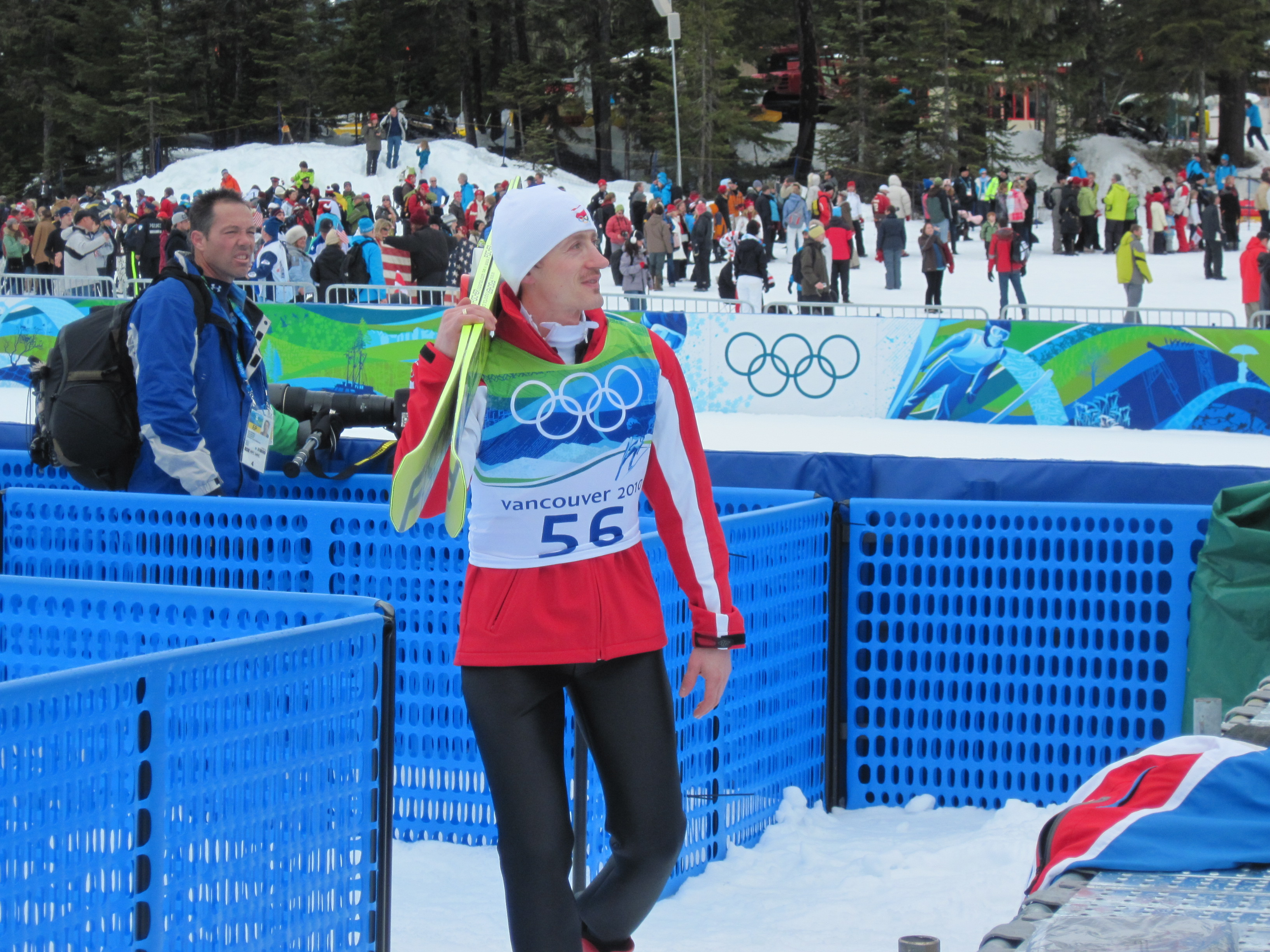 Adam Małysz